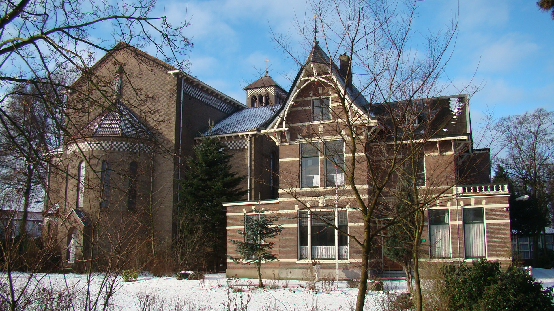 st joseph at Velsen North (Netherlands)